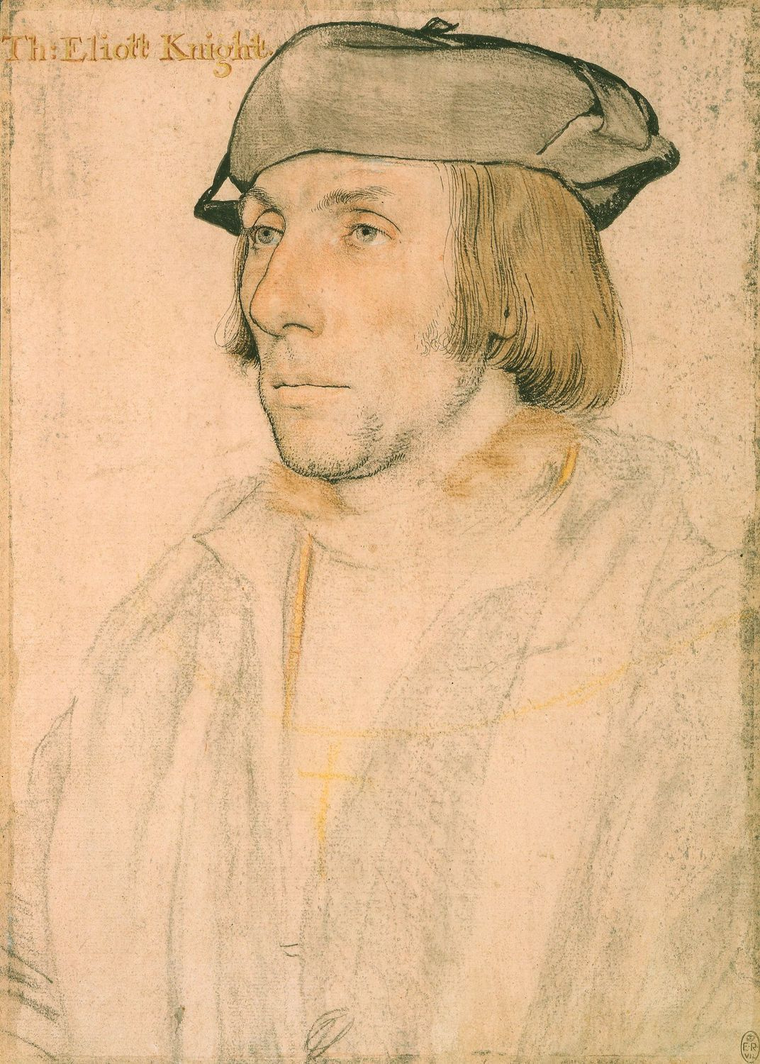 Sir Thomas Elyot (c. 1490–1546) was a diplomat, Member of Parliament, and a humanist writer, part of the circle around Sir Thomas More. Holbein made this study, along with that of Elyot's wife, Margaret (left), for matching paintings now lost. Both drawings are strongly reinforced with Indian ink around the heads and headgear, a technique absent in the portrait studies of Holbein's first English period. Dating from the earliest stage of his second stay in England, which started in 1532, the drawing is unusually well preserved, down to the white chalk heightening on Elyot's nose.[1] The sitter wears his hair long, in the older fashion.[2] At the time of this drawing, Elyot had just returned from a hopeless mission to persuade Emperor Charles V to accept Henry VIII's treatment of his aunt Katherine of Aragon. As a friend of Thomas More, however, Eliot was suspected of favouring Katherine over Anne Boleyn. Holbein indicates in this drawing that Elyot is wearing a crucifix on a chain, a sign of his traditional faith.[3] In 1531, Elyot had lamented the standard of native-born artists, complaining that the English "be constrayned, if we will have anything well paynted, kerved, or embrawdered, to abandone our own countraymen and resorte unto strangers".[4]